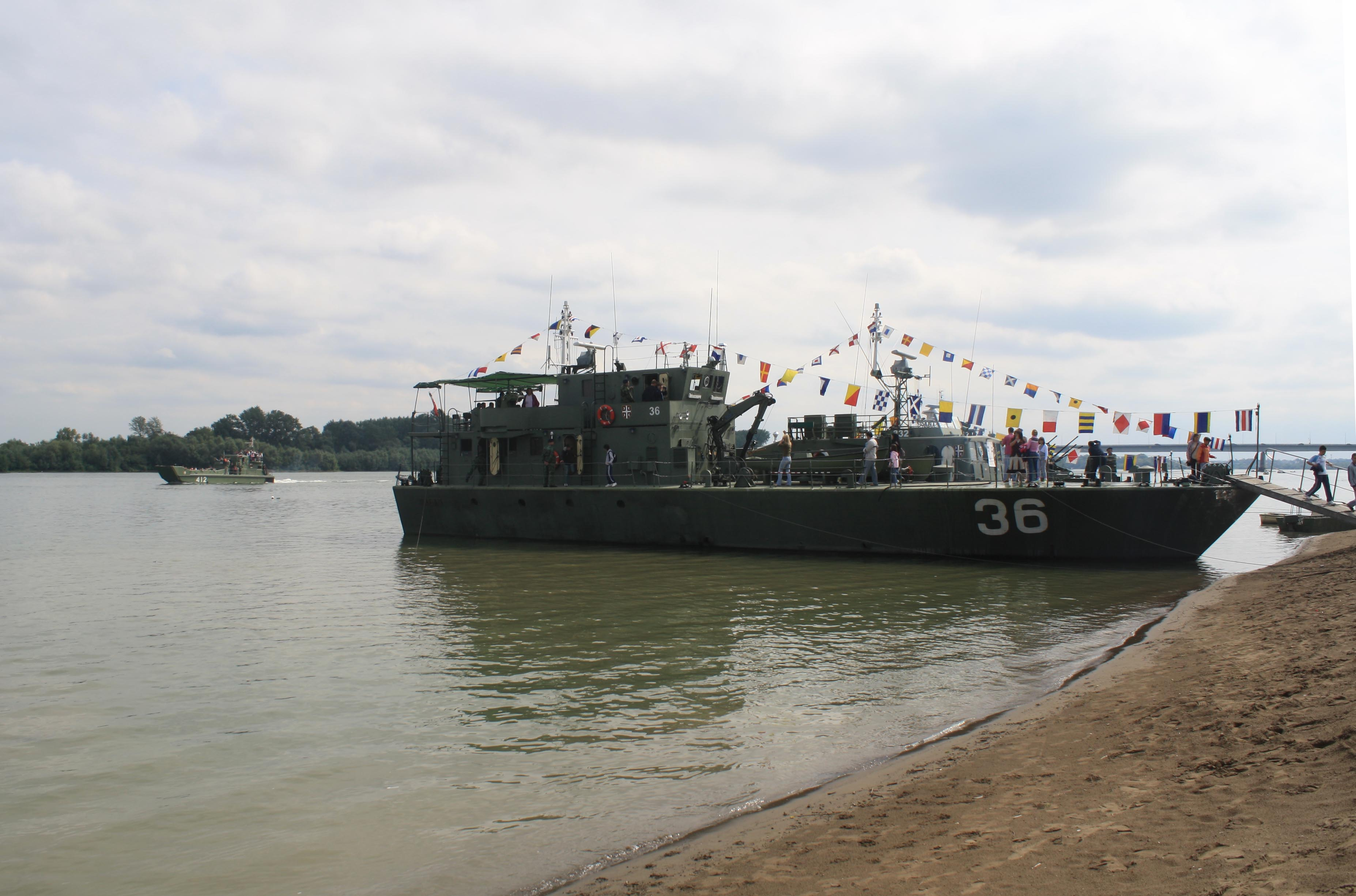 The river station for degauss RSRB-36 "Šabac" of Serbian River Flotilla anchored at Šabac city beach.